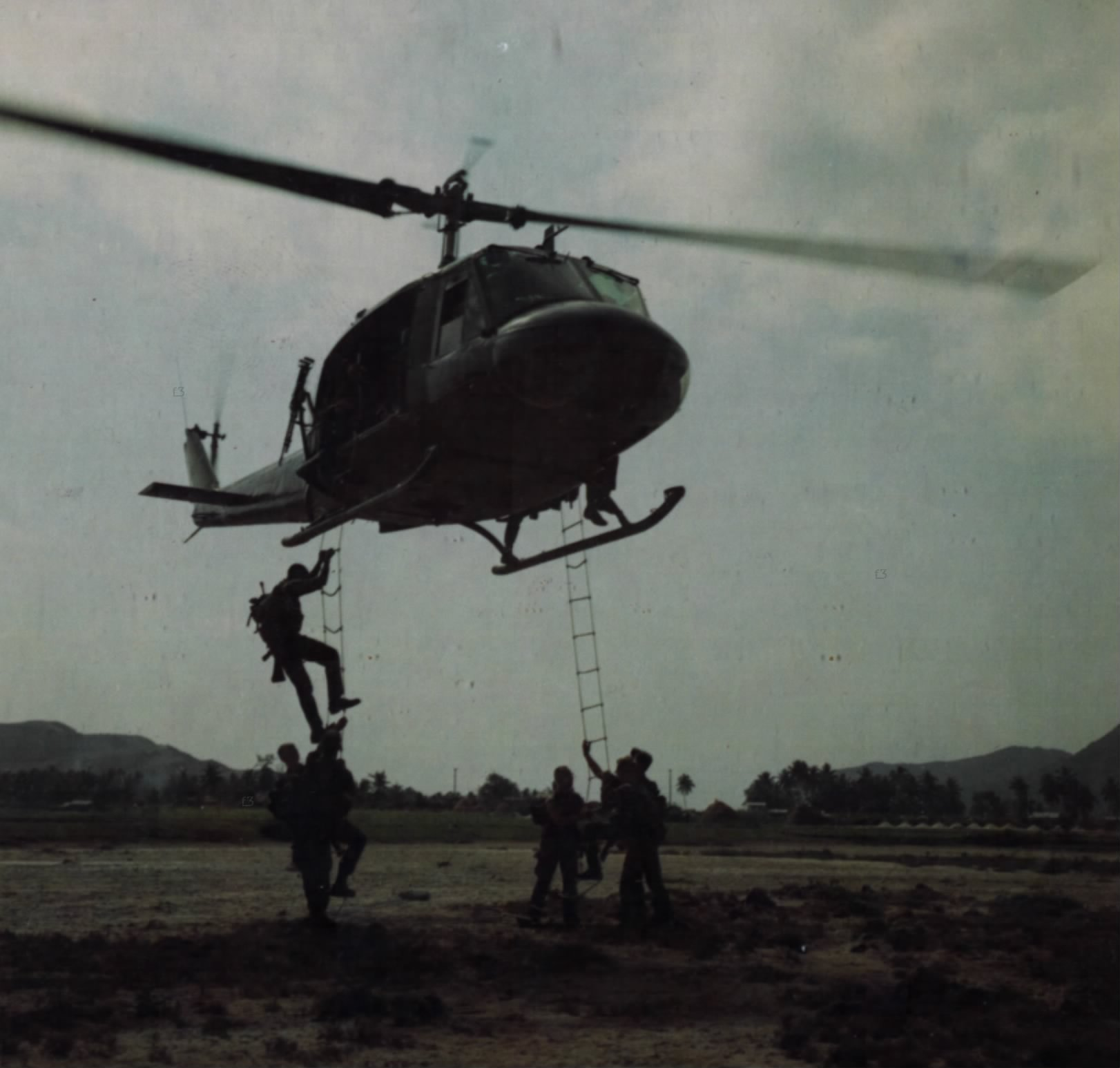 Students climb and descend a rope ladder mounted on a UH-1D helicopter to prepare them for combat operations using the ladder for entry and extraction in hostile areas.